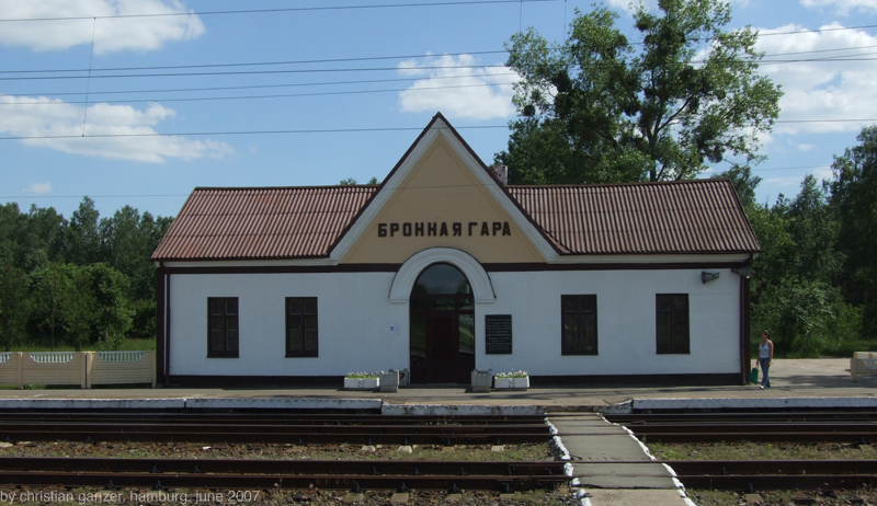 Train Station Bronnaya Gora, near Bereza, Brestskaya Oblast